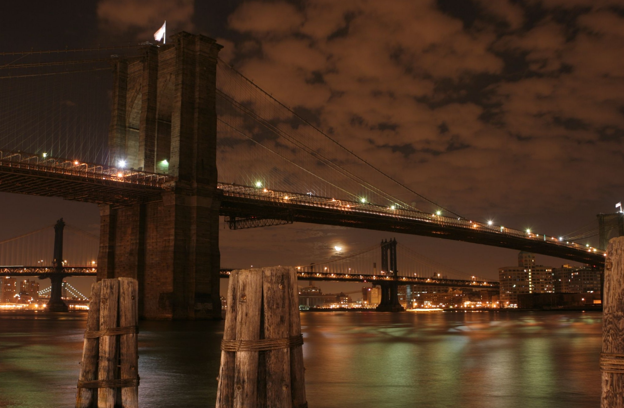 Brooklyn bridge at night, New York city, NY.